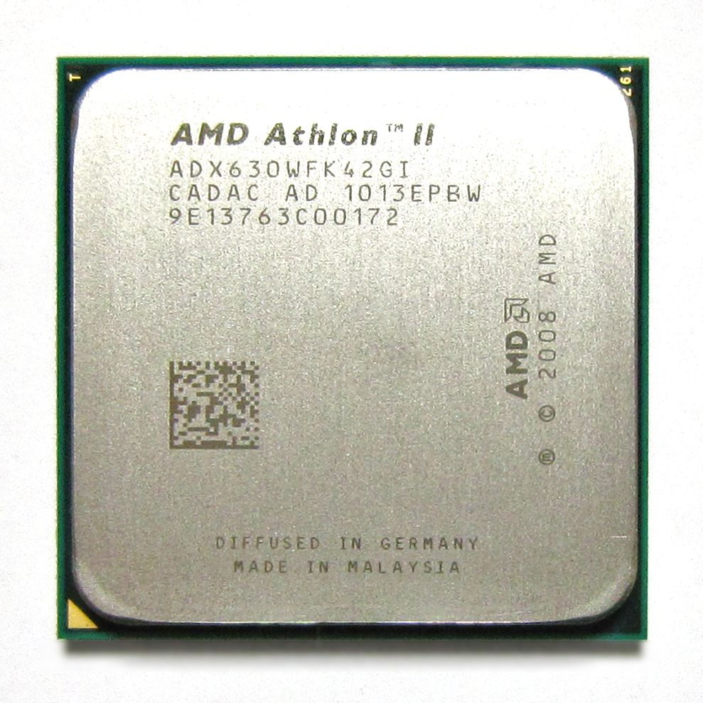 AMD Athlon II X4 630.